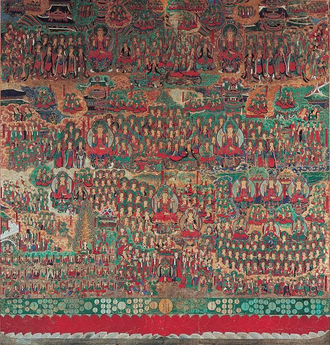 Illustration of the Avatamsaka Sutra at Songgwangsa temple in Suncheon, Korea